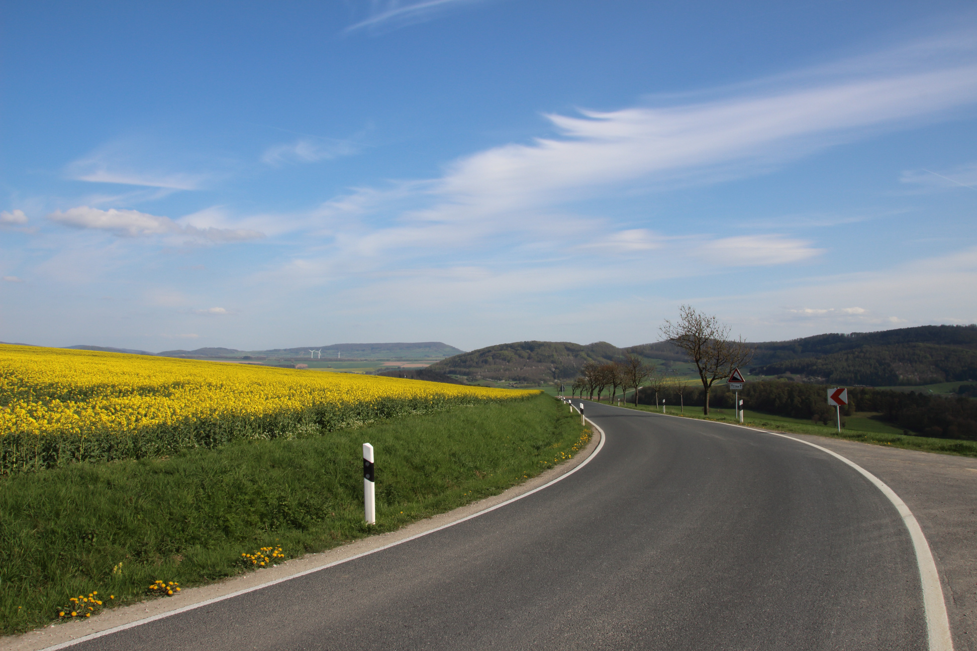 "Rühler Schweiz", state road "Landesstraße 580" between villages Rühle and Golmbach, view from top of the pass over south ramp to mountains Burgberg and Holzberg (in background)